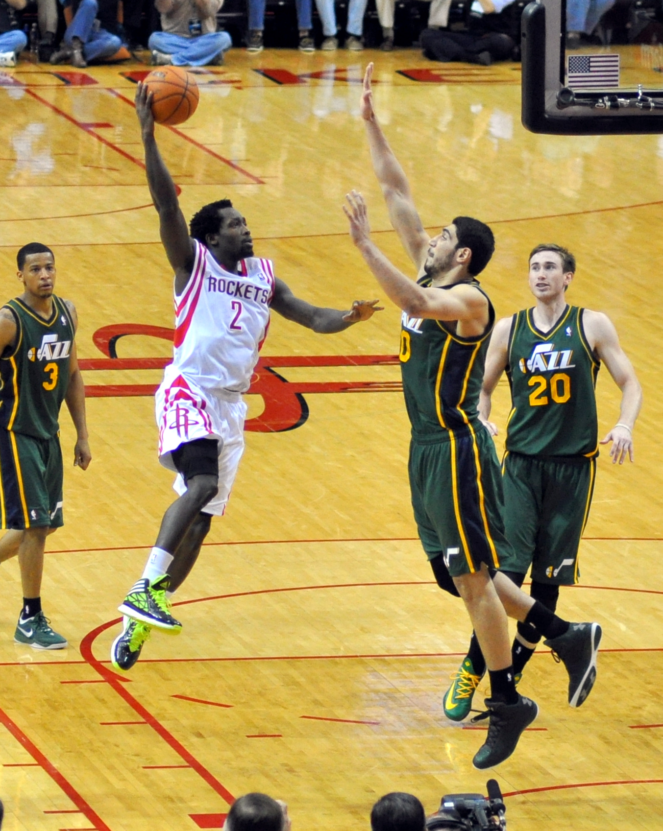 Patrick Beverley of the Houston Rockets takes a shot as Enes Kanter of the Utah Jazz defends during an NBA basketball game on March 17, 2014, at the Toyota Center in Houston, Texas.